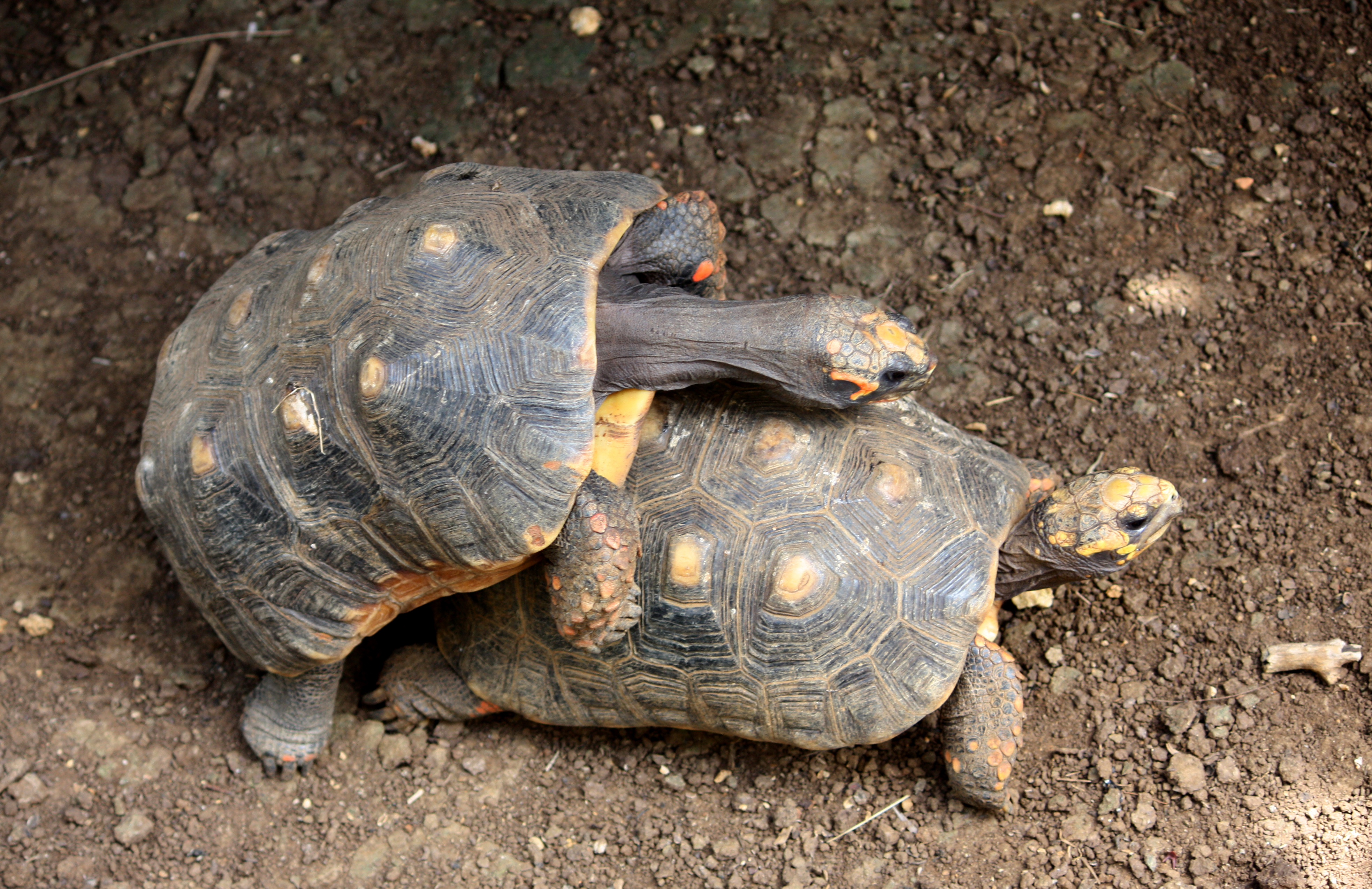 Red-footed Tortoises (Geochelone carbonaria) mating. In captivity in Barbados Wildlife Reserve.